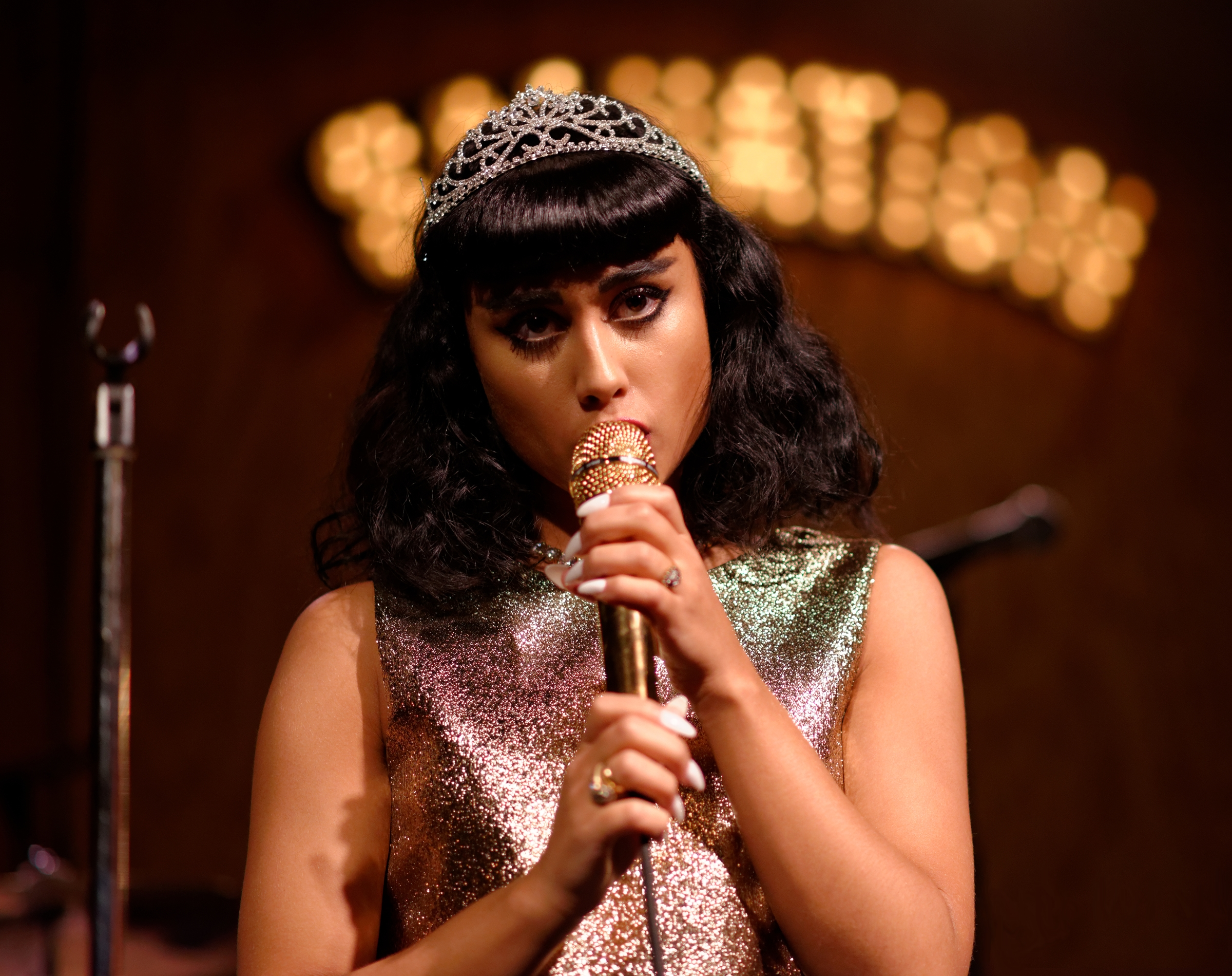 Natalia Kills performing at the Bootleg Bar